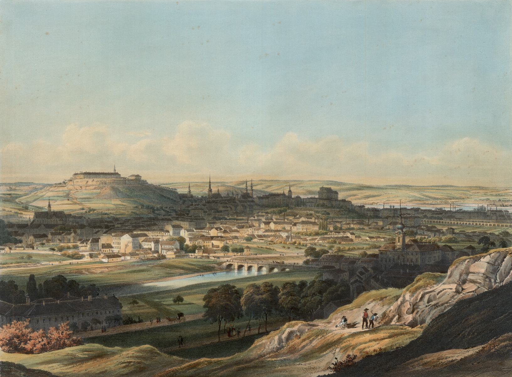 Picture showing Brno in cca 1850.